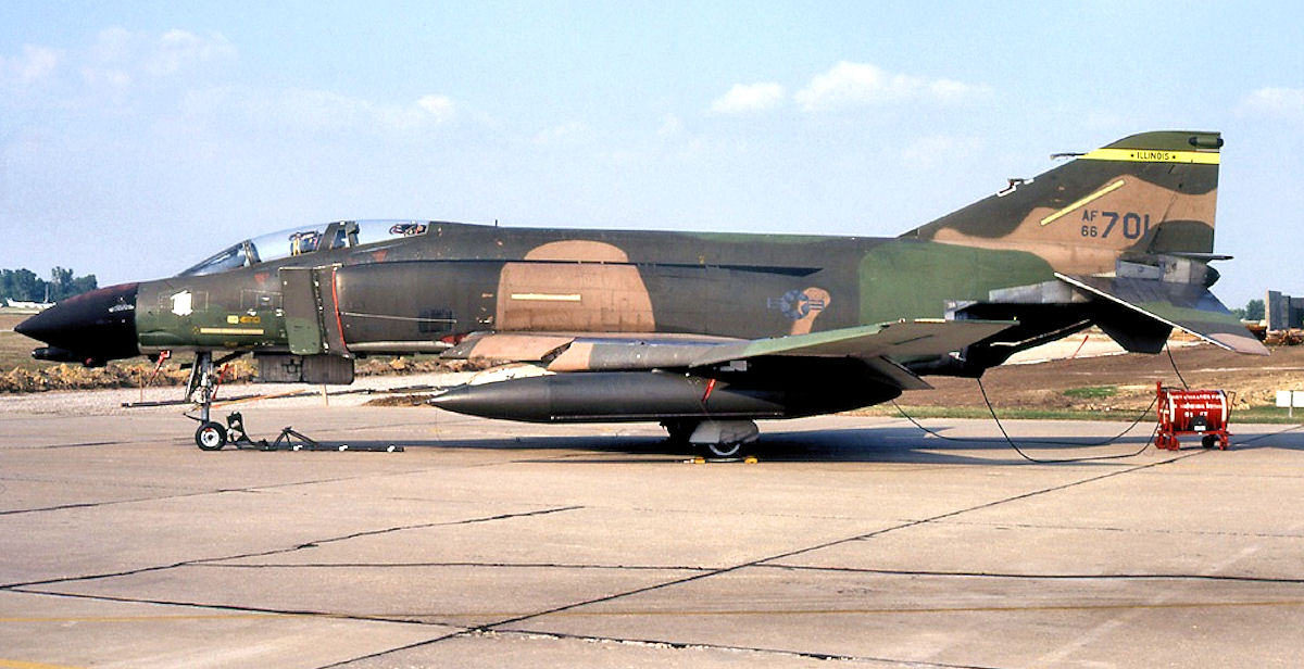 170th Tactical Fighter Squadron McDonnell F-4D-31-MC Phantom 66-7701 Retired to AMARC as FP0146 Aug 2, 1988.